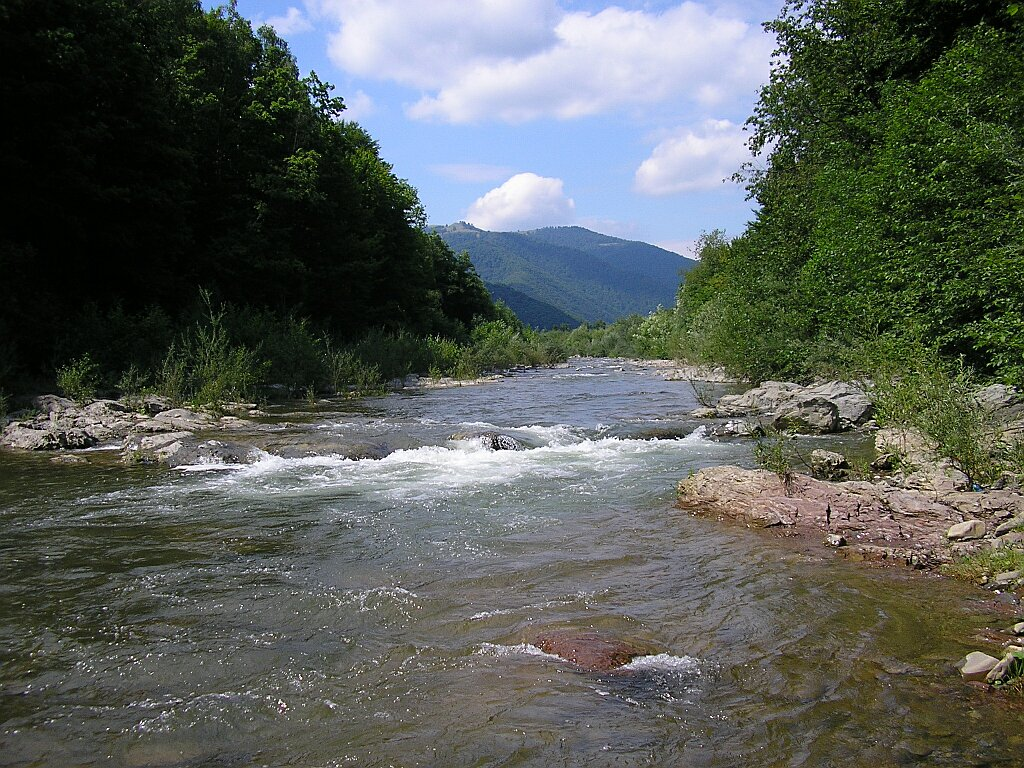 Tereblya river